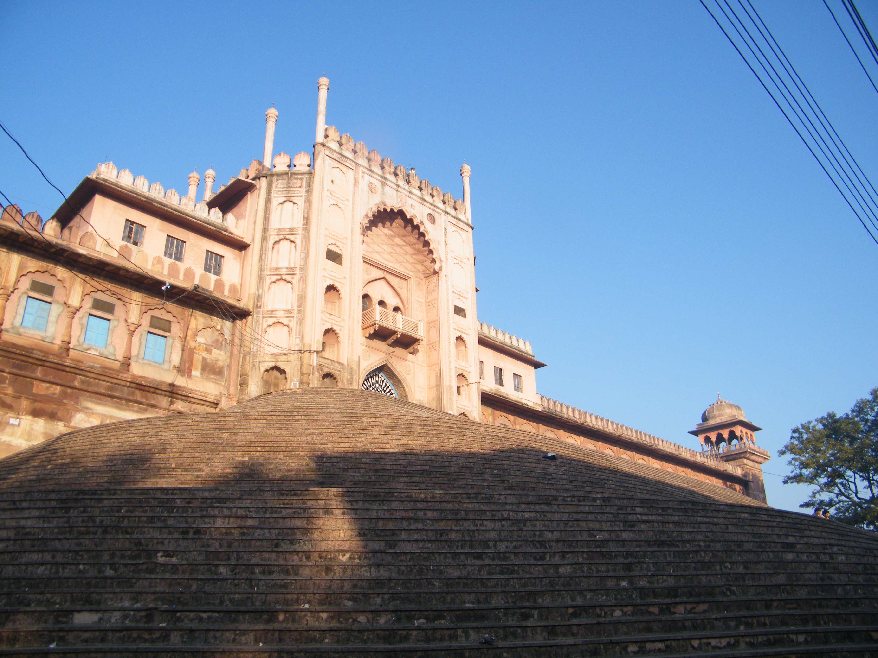 View of Taj-ul-Masajid, Bhopal